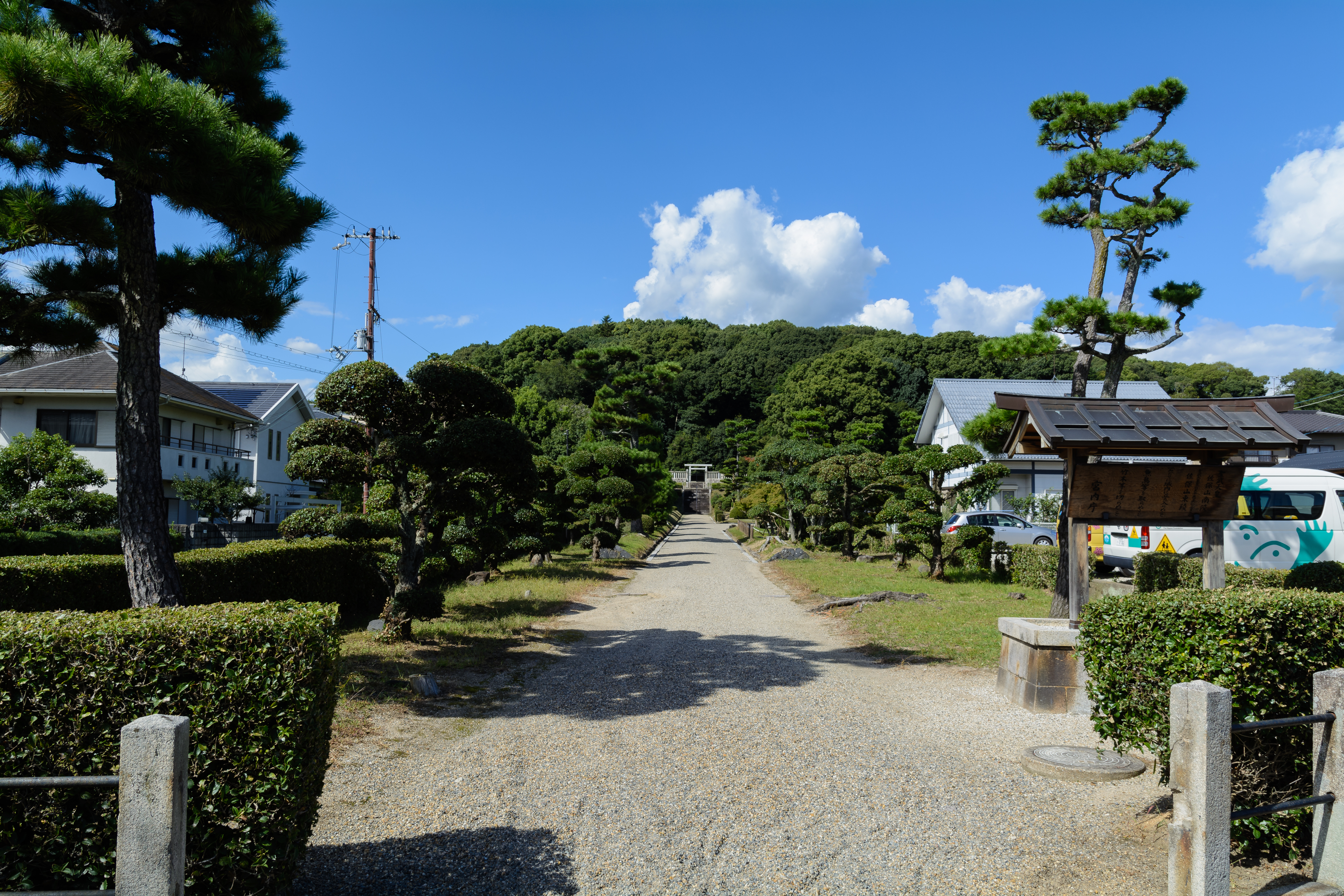 The tomb of Emperor Shōmu in Nara, Nara prefecture